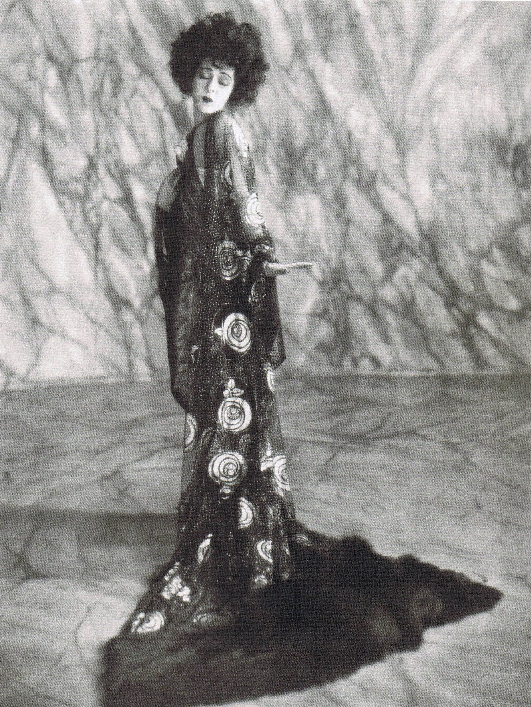 Film still of Alla Nazimova in the 1921 film Camille.